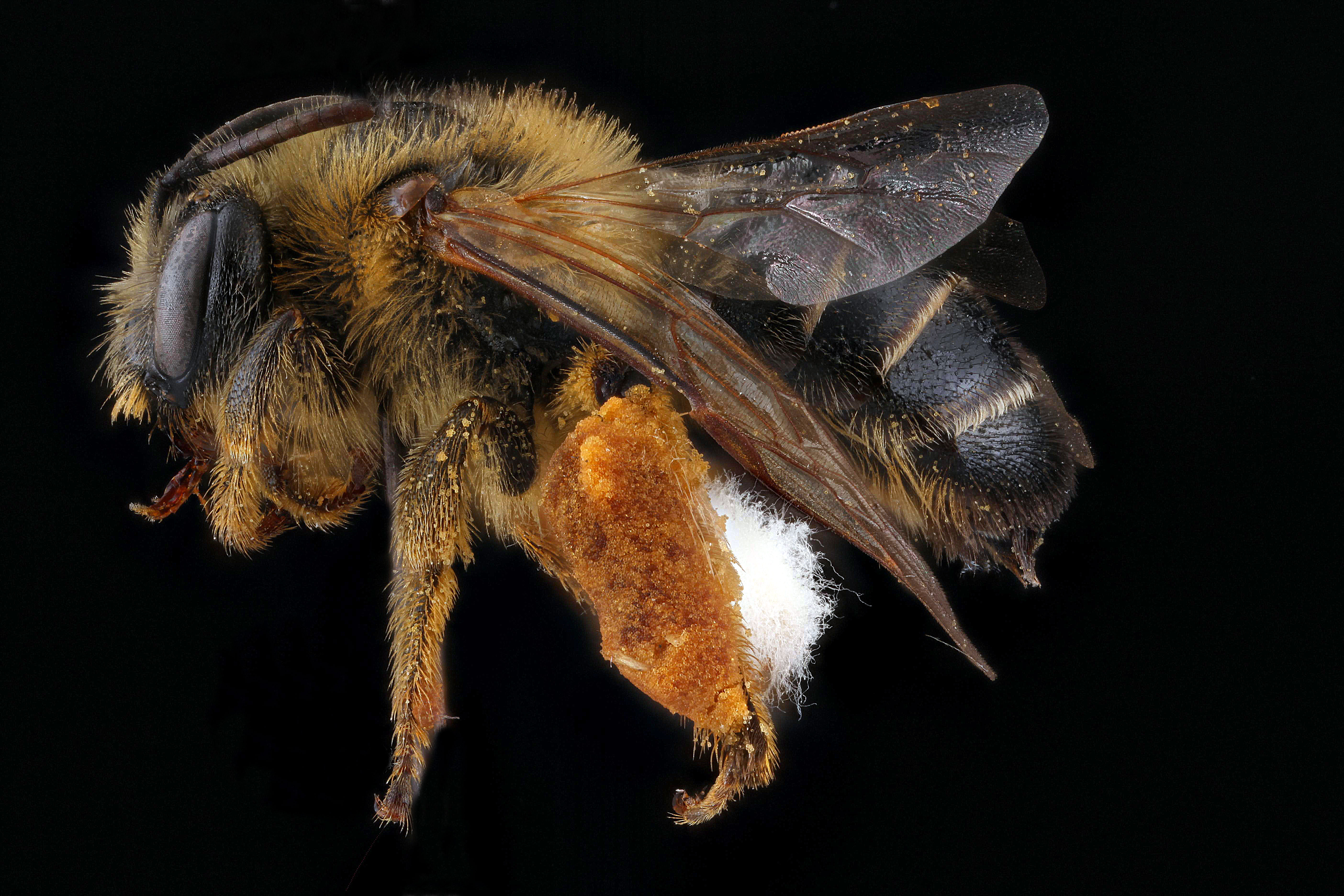 Melitta eickworti, female, West Virginia, with a bit of mold on the pollen area